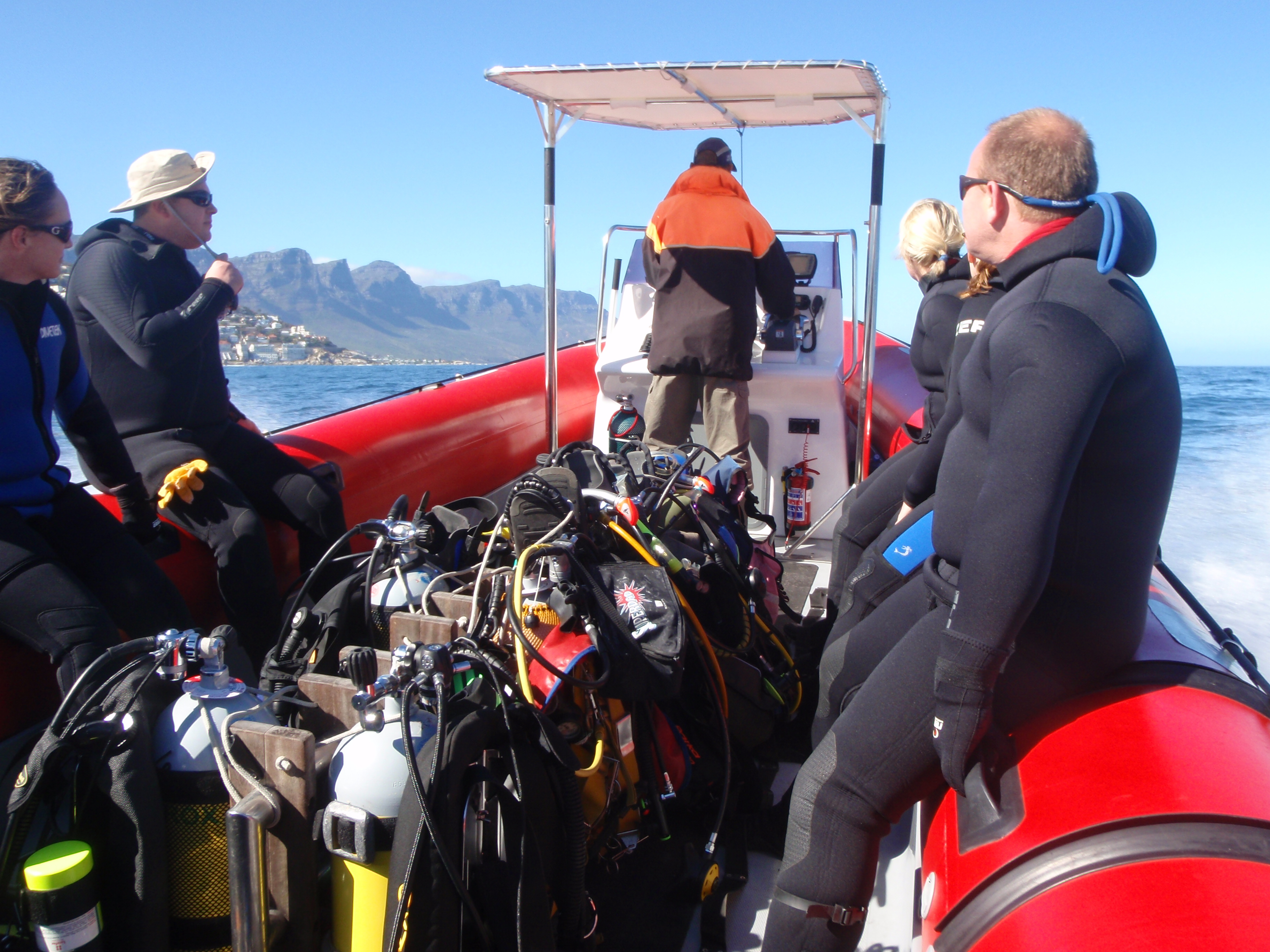 Divers travelling to a dive site on a large rigid hulled inflatable fitted out for this service